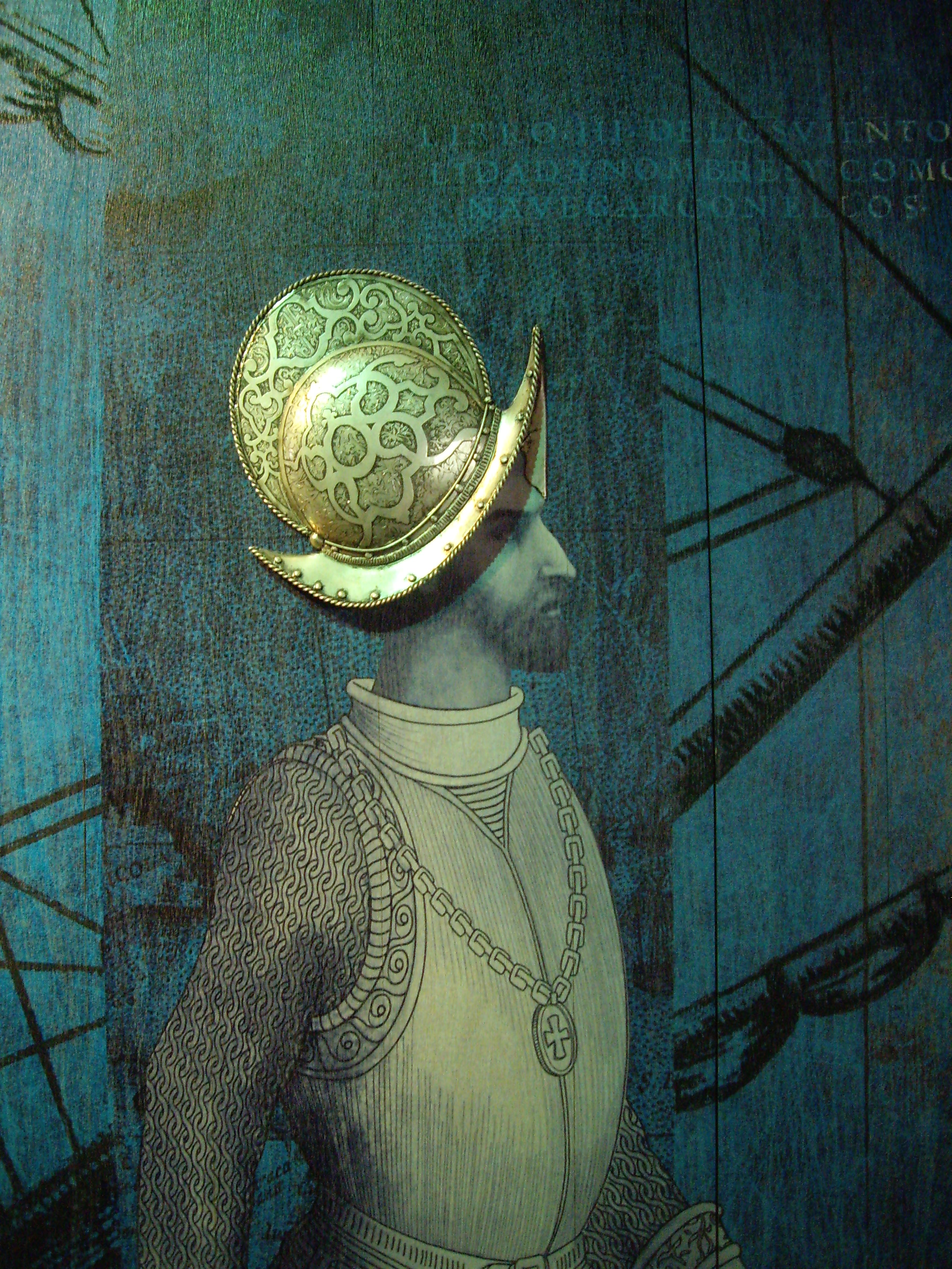 Spanish conqueror Pabellón de la Navegación, in Seville, Spain